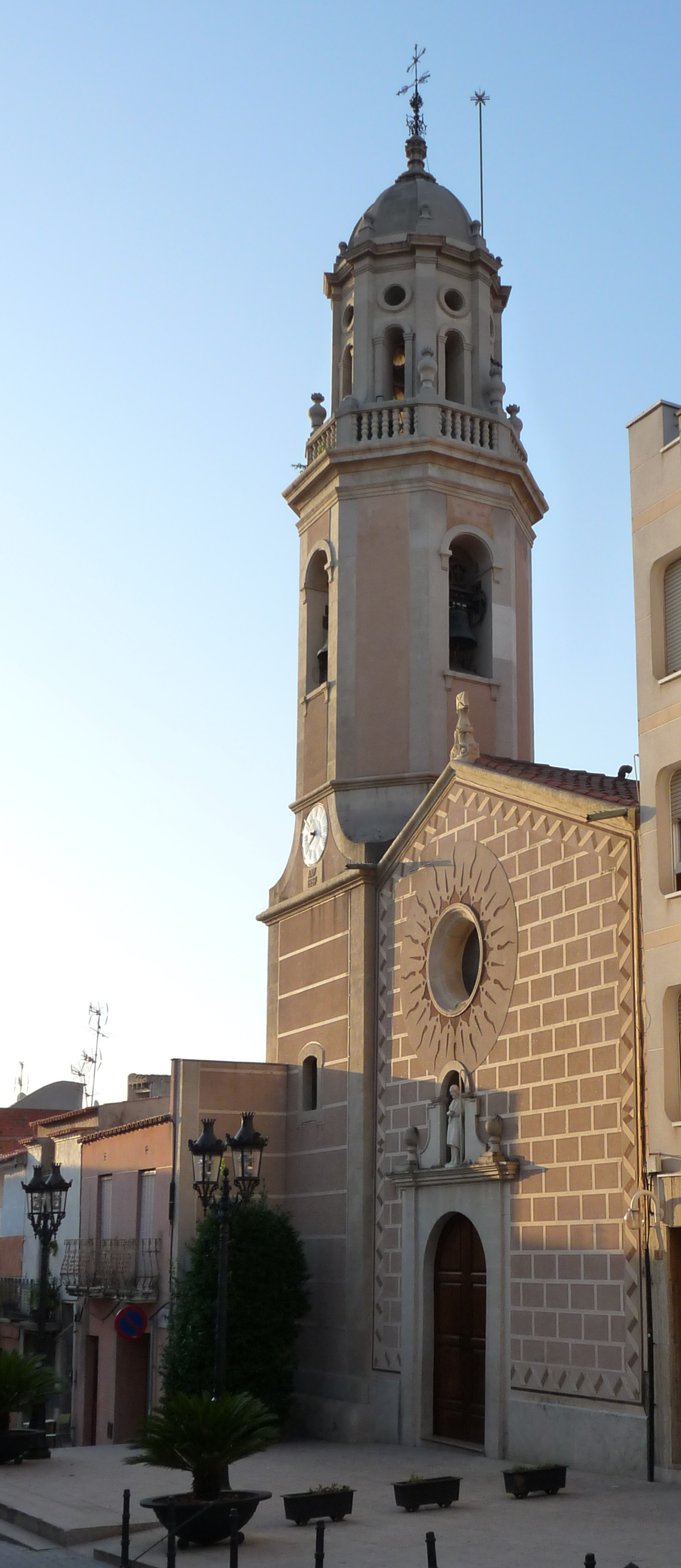 Churche of Sant Joan Baptista, la Pobla de Mafumet.